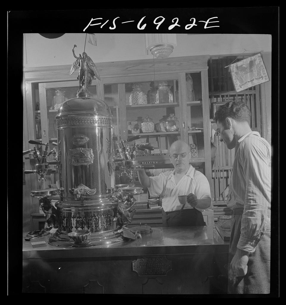 New York, New York. Italian-American cafe espresso shop on MacDougal Street where coffee and soft drinks are sold. The coffee machine cost one thousand dollars